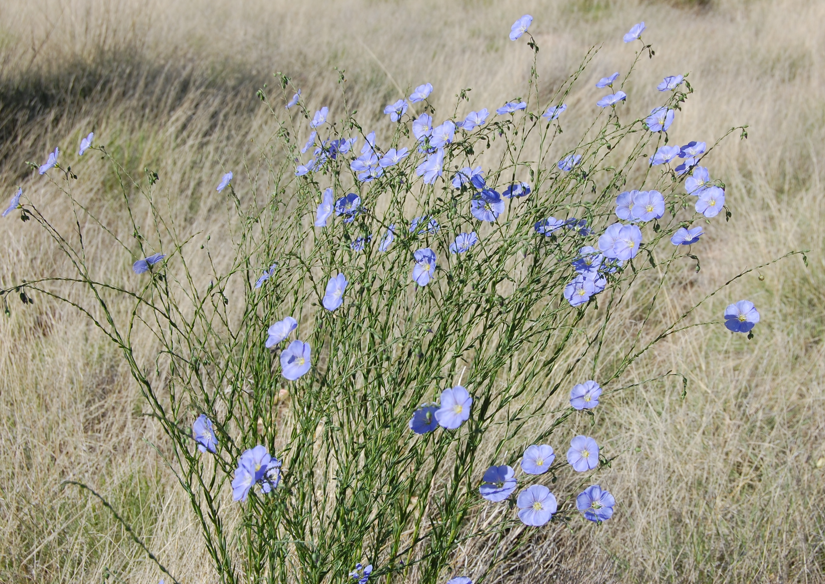 Photo of a Blue flax flower taken in Elena Gallegos Picnic Area, Albuquerque, NM. Nikon D40, with 18-55 mm f/3.5-5.6GII ED AF-S DX Zoom-Nikkor Lens, auto no-flash mode. Image saved by D40 as JPEG fine, large.